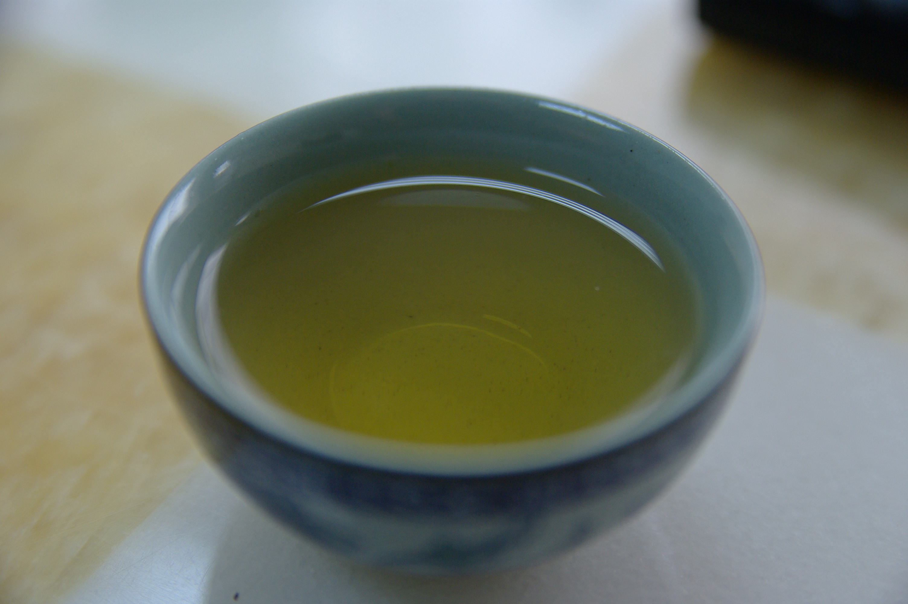 some of that tea